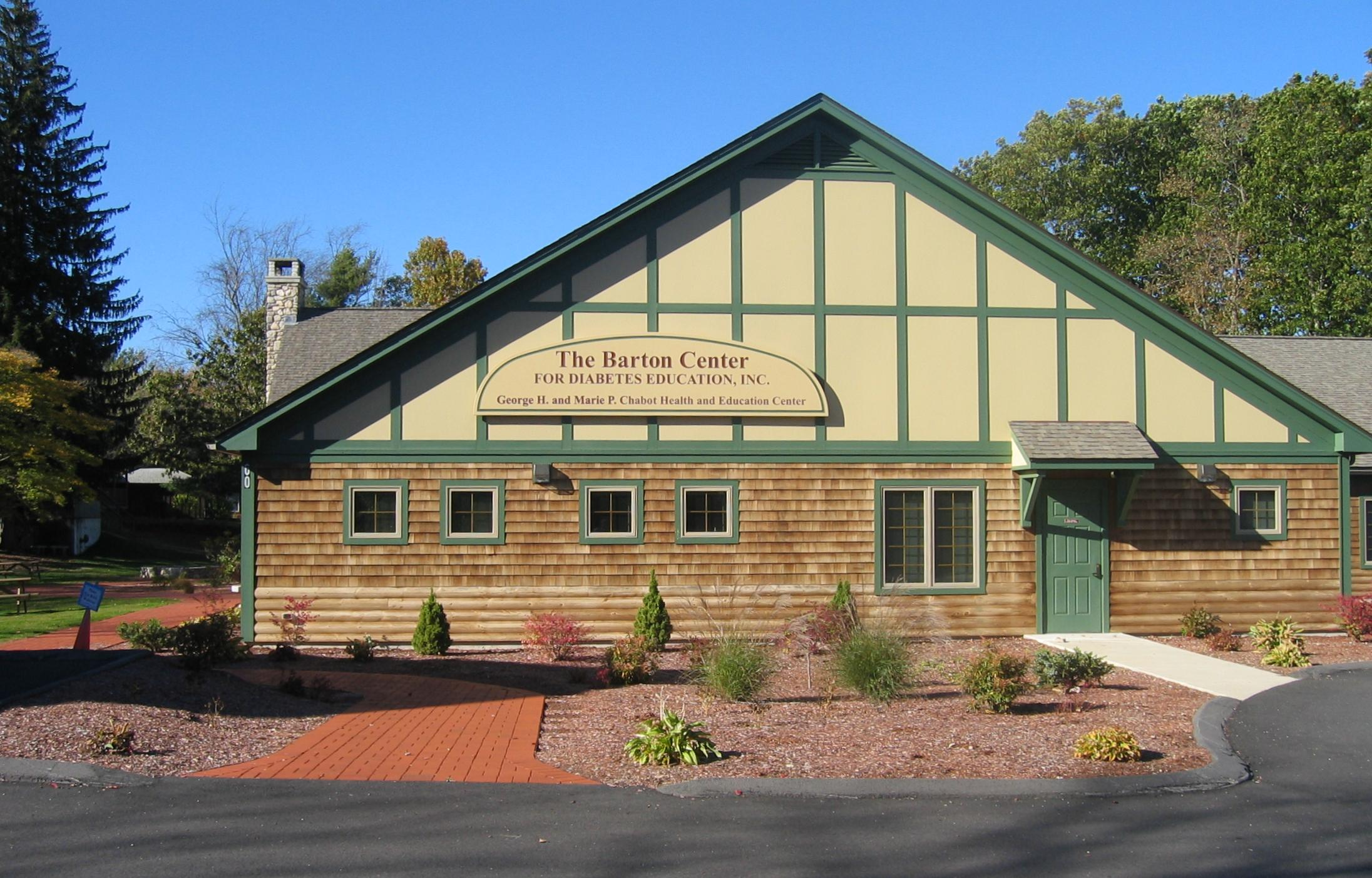 Picture of the Chabot Center at the Barton Center for Diabetes Education